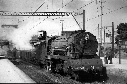 Locomotive 5801 brings a South Coast goods train into Sutherland station